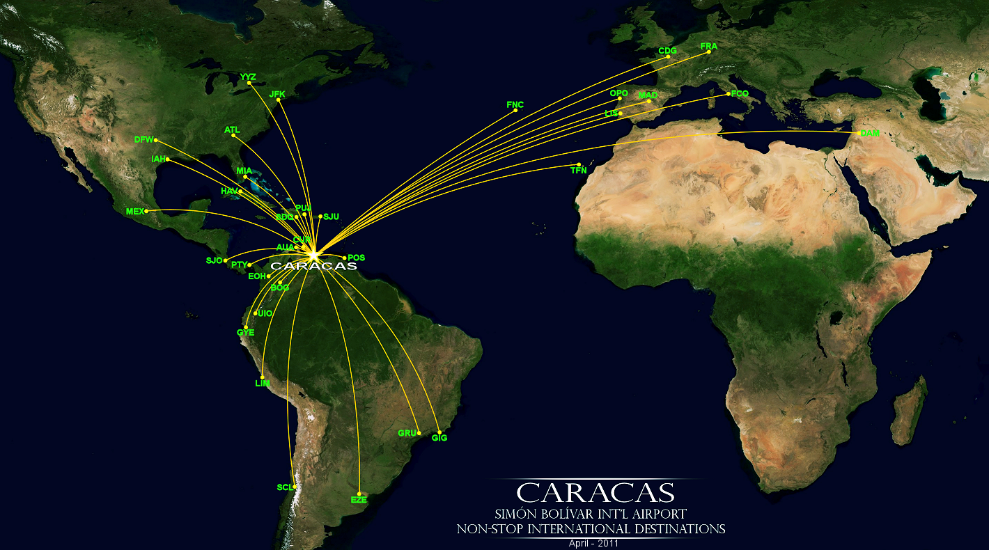 Non-stop international destinations at april 2011